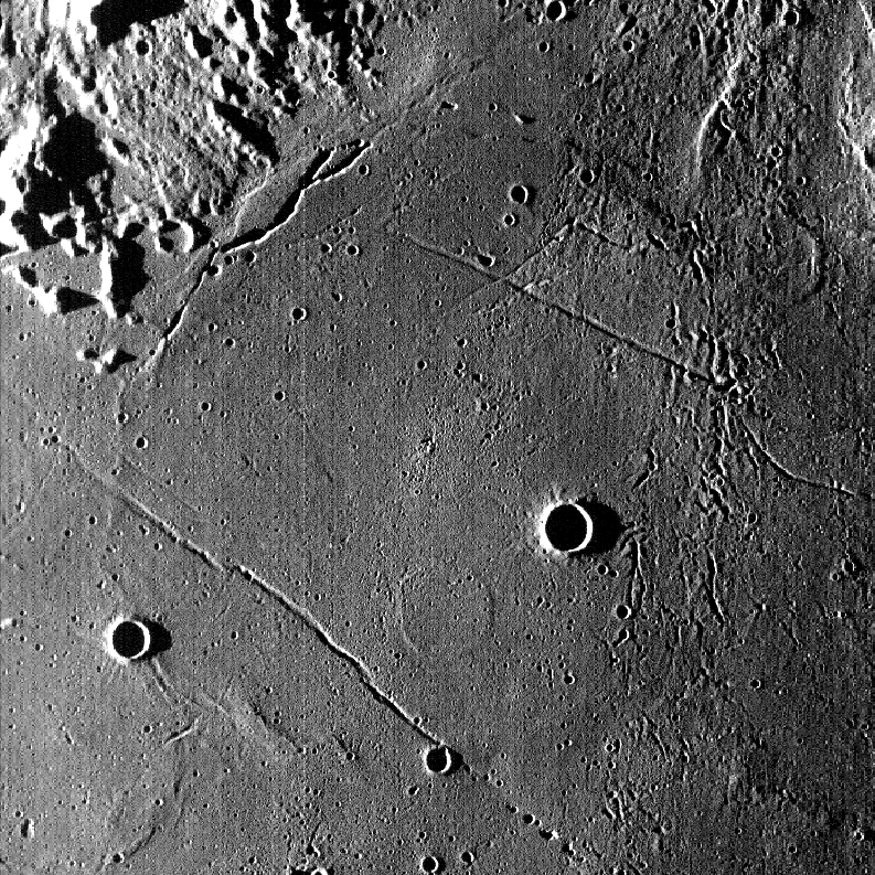 Unnamed ghost crater approximately 85 km in diameter in northwestern Mare Fecunditatis on the Moon (center of the crater is on 0.1°N, 44.9°E). Rilles in upper left are Rimae Secchi; they are grabens which emerged in lava plains along the rim of this crater and later hosted volcanic activity. Rille in the bottom left is Rima Messier; the rille above is unnamed. A small (12 km in diameter) ghost crater is seen below the center. Numerous furrows in the right are traces of ejecta from crater Taruntius, located behind upper edge of the image. Photo by Lunar Reconnaissance Orbiter, made with Wide Angle Camera on 4 April 2018 from altitude 101 km. Sun elevation is 3.9°. Width of the region is approximately 112 km, north is approximately up (for making it up, rotate the image 3.7° ccw).